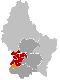 Bascharage municipality location (valid until 1 January 2012). Own edit of Image:Kanton CapellenLocatie.png